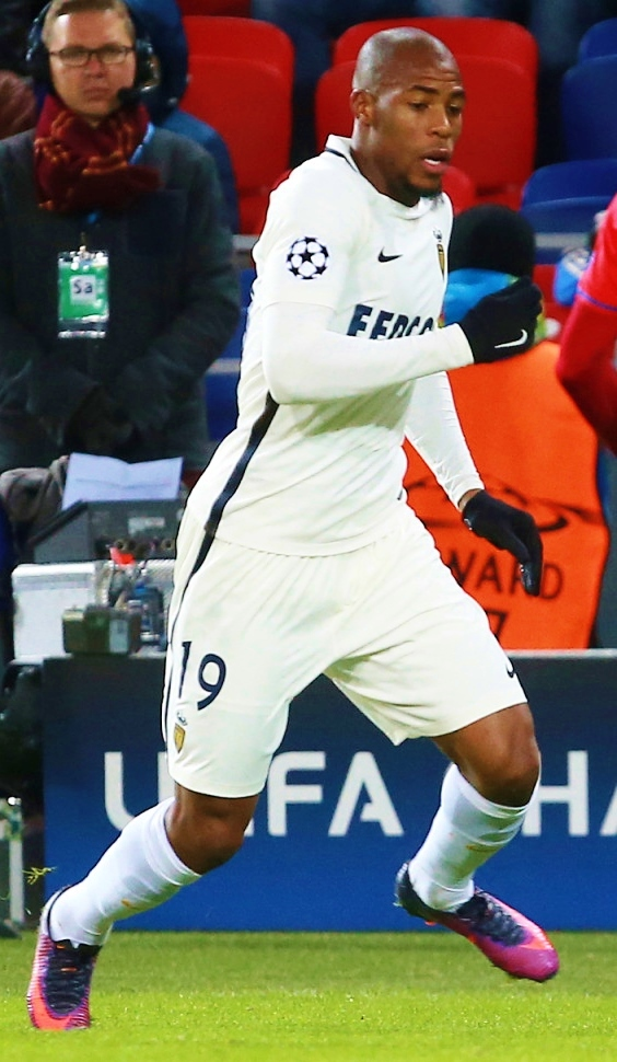 Djibril Sidibé